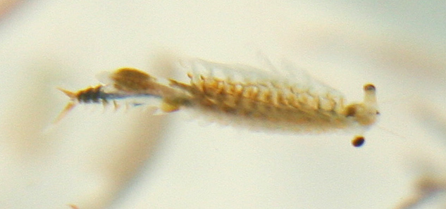 Female brineshrimp in a laboratory aquarium